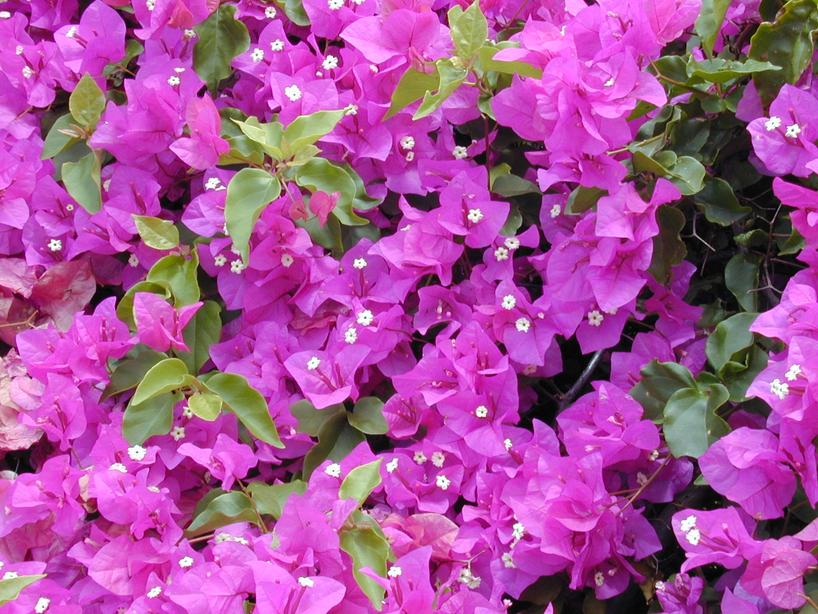 Bougainvillea spectabilis (flowerings). Location: Maui, Kula